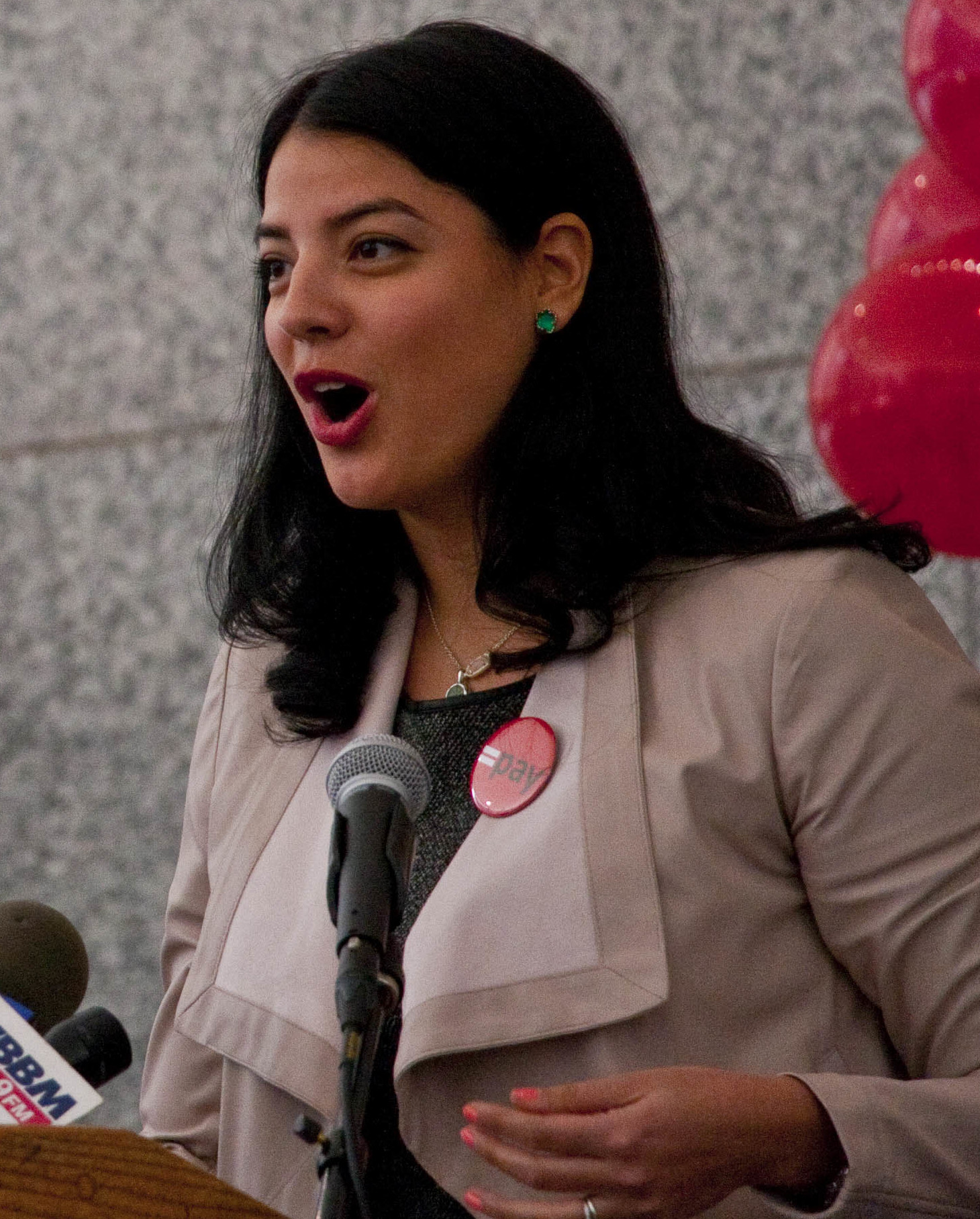 A rally and press conference was held on Tuesday afternoon April 10th at the Daley Center in downtown Chicago to call attention to the fact that the state of Illinois is one of fourteen states yet to pass the Equal Rights Amendment. The Equal Rights Amendment states that: "Equality of rights under the law shall not be denied or abridged by the United States or any state on account of sex". The E.R.A, would provide legal protection for women in various ways including gender-based violence, equal pay, and pregnancy discrimination. 70% of America's poor are women. This also affects the children who depend on them. Women make up roughly half the workforce and constitute two-thirds of minimum wage workers. Women earn 79 and 44% of what men make adjusted for their race. The latter figure applies more to blacks and Hispanics. Women are twice as likely to retire in poverty as men. Passing the E.R.A. would ensure that employers could not give women less pay for doing the same work as a man. For more information .